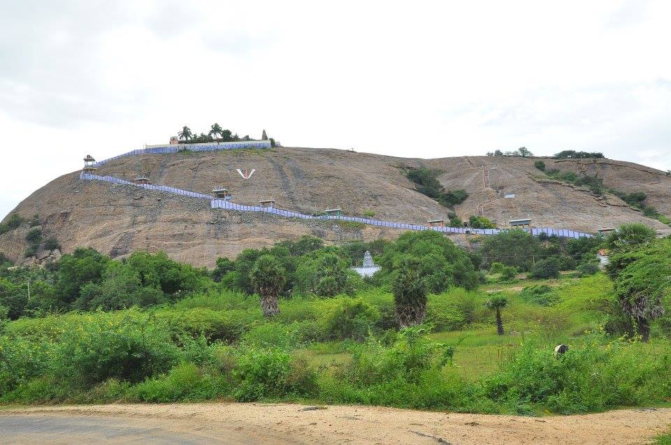 Ilayaperumal Kovil Located near by Village